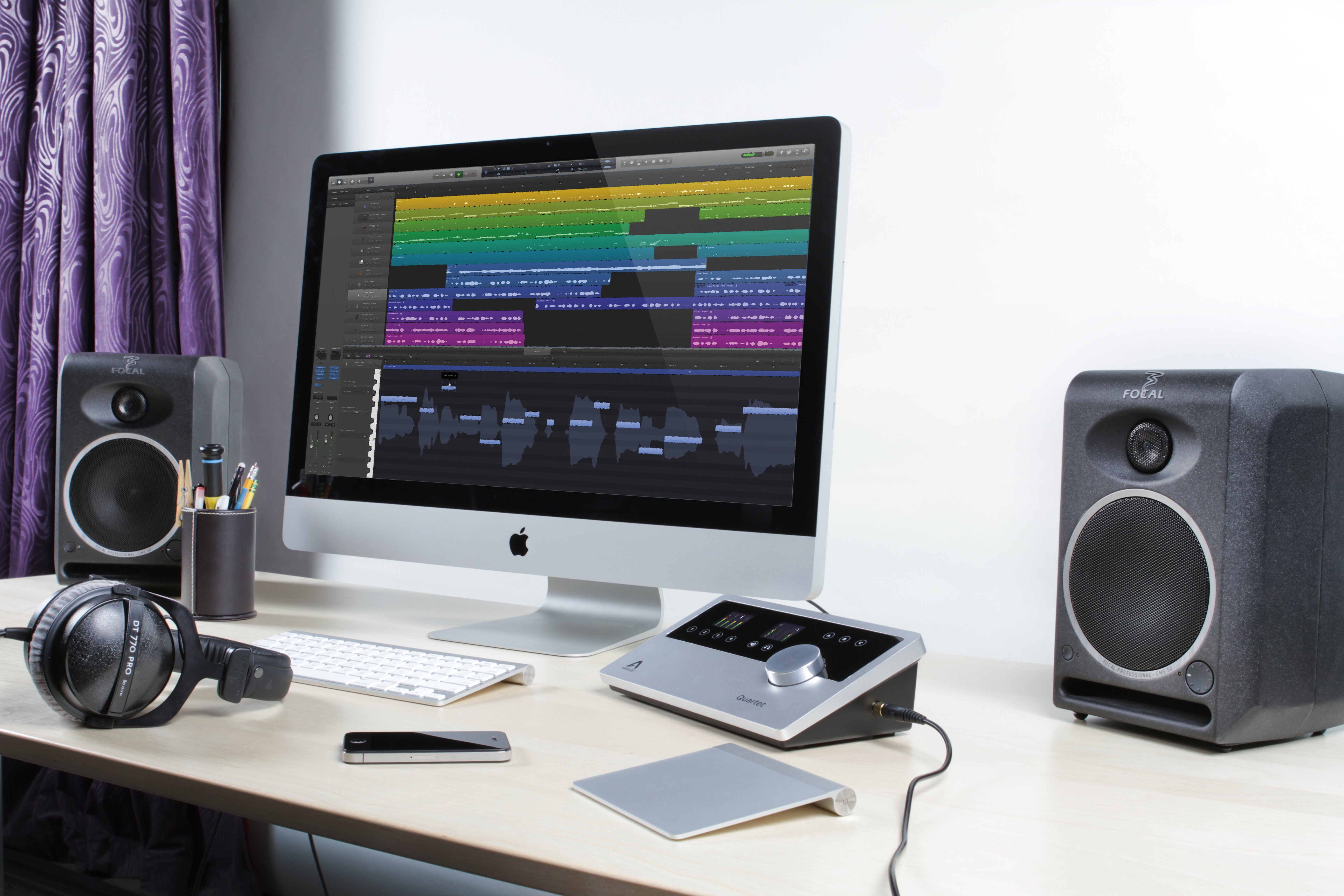 Apogee Quartet Launch Product Photograph Photographer: David Podosek 2013